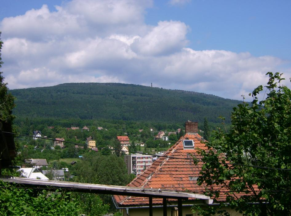 Sněžník from Jílové.